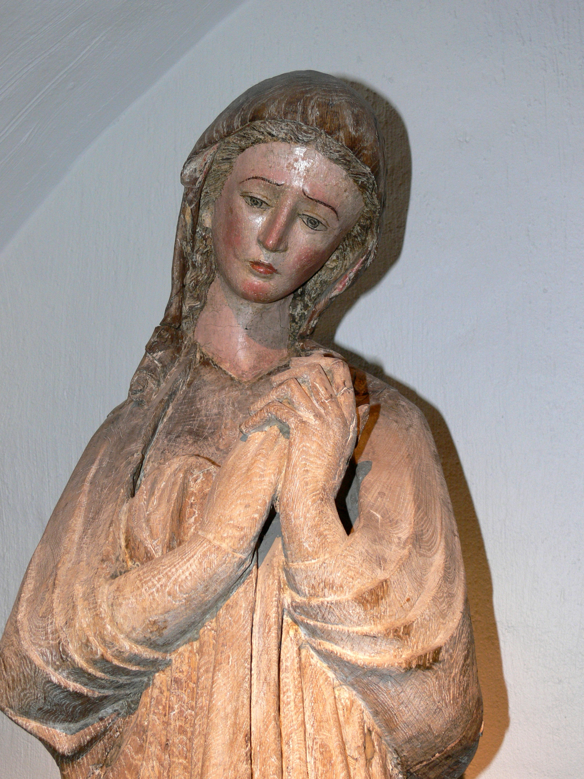 Fornsalen Museum, Visby ( Gotland ). Madonna of Öja.